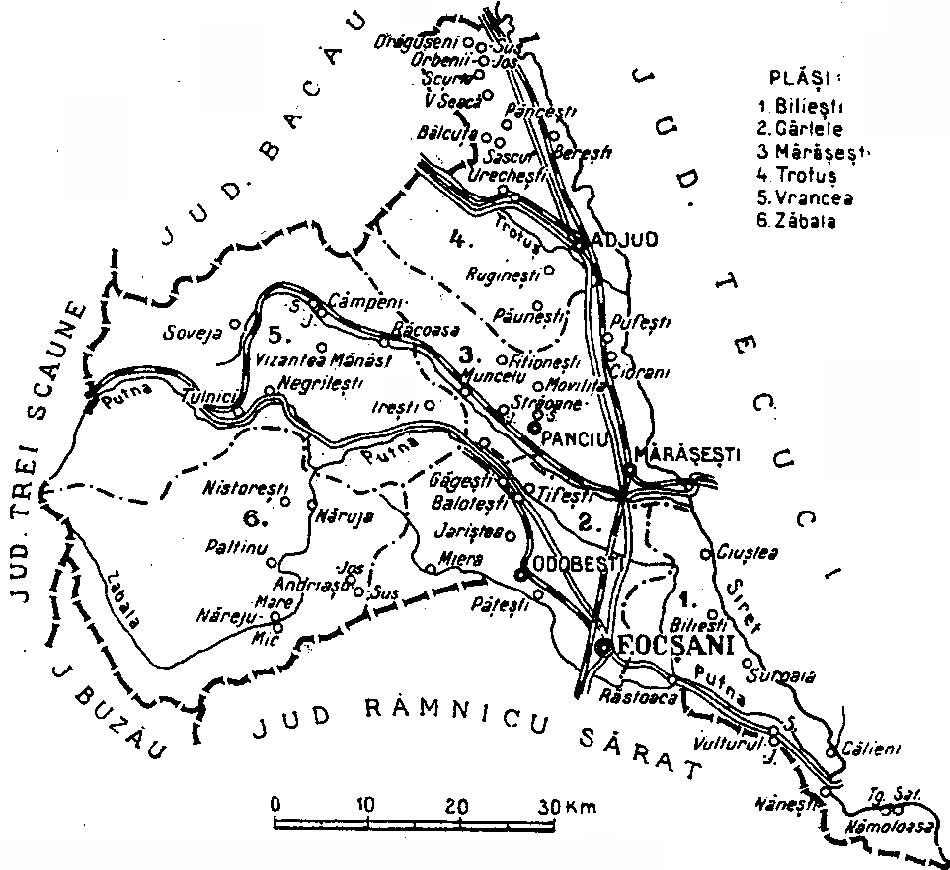 Map of Putna interwar county, Kingdom of Romania (1938).